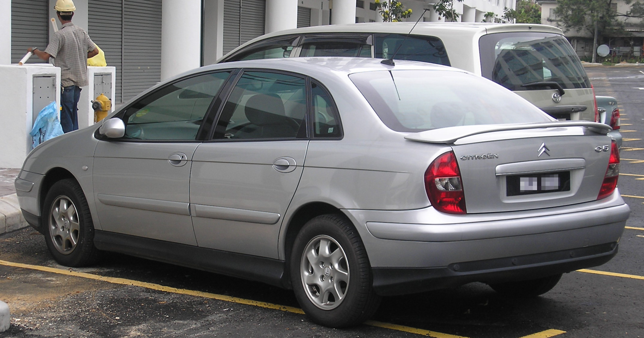 Rear quarter view of a first generation Citroën C5, in Serdang, Selangor, Malaysia.